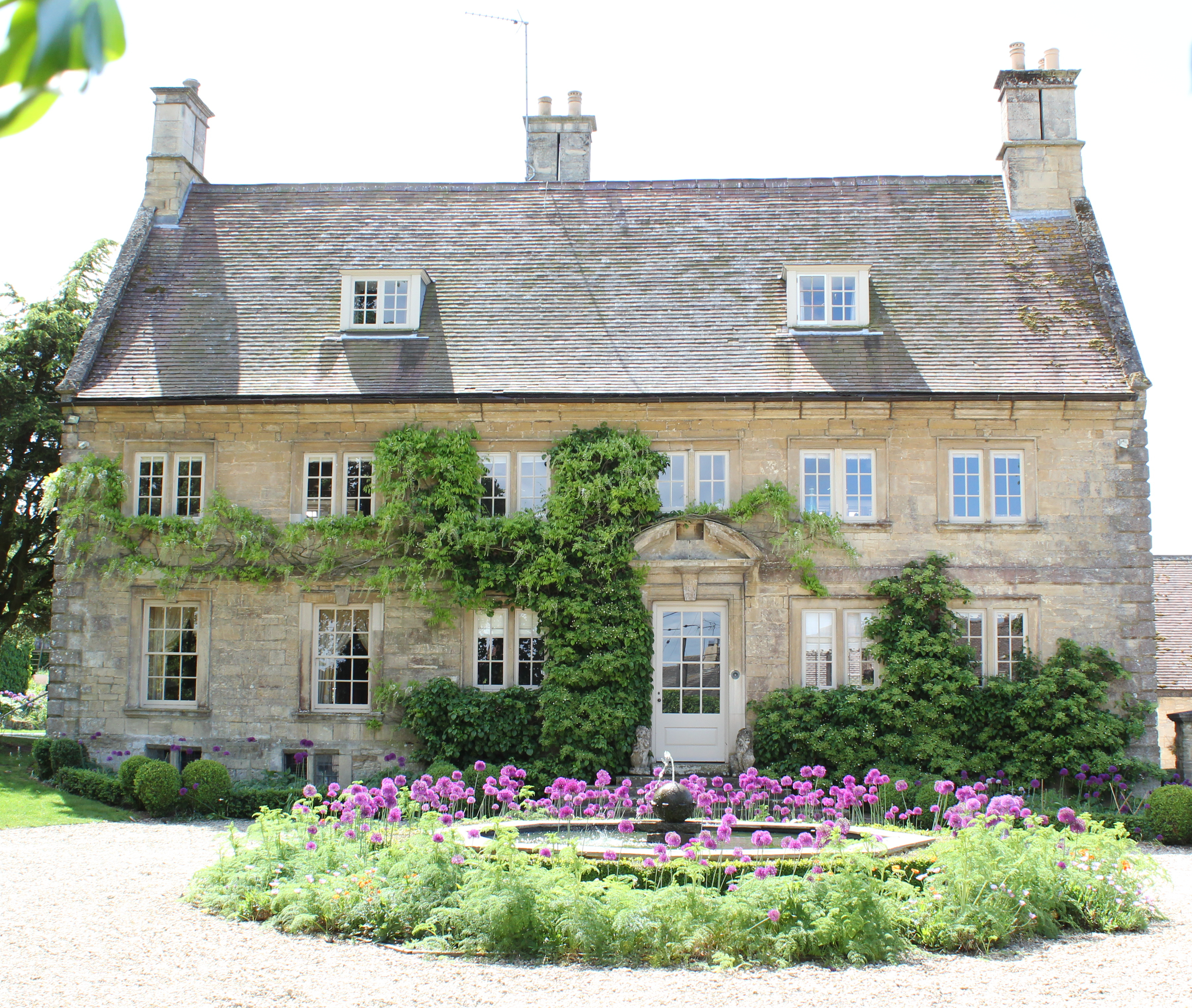 Front elevation of the Manor House, Wappenham, Northants, England